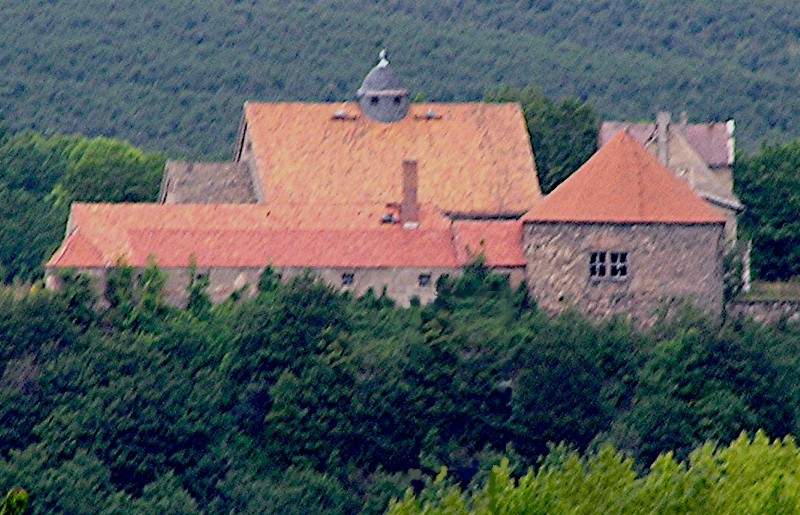 Dohna Castle (Dohna, Saxony, Germany)